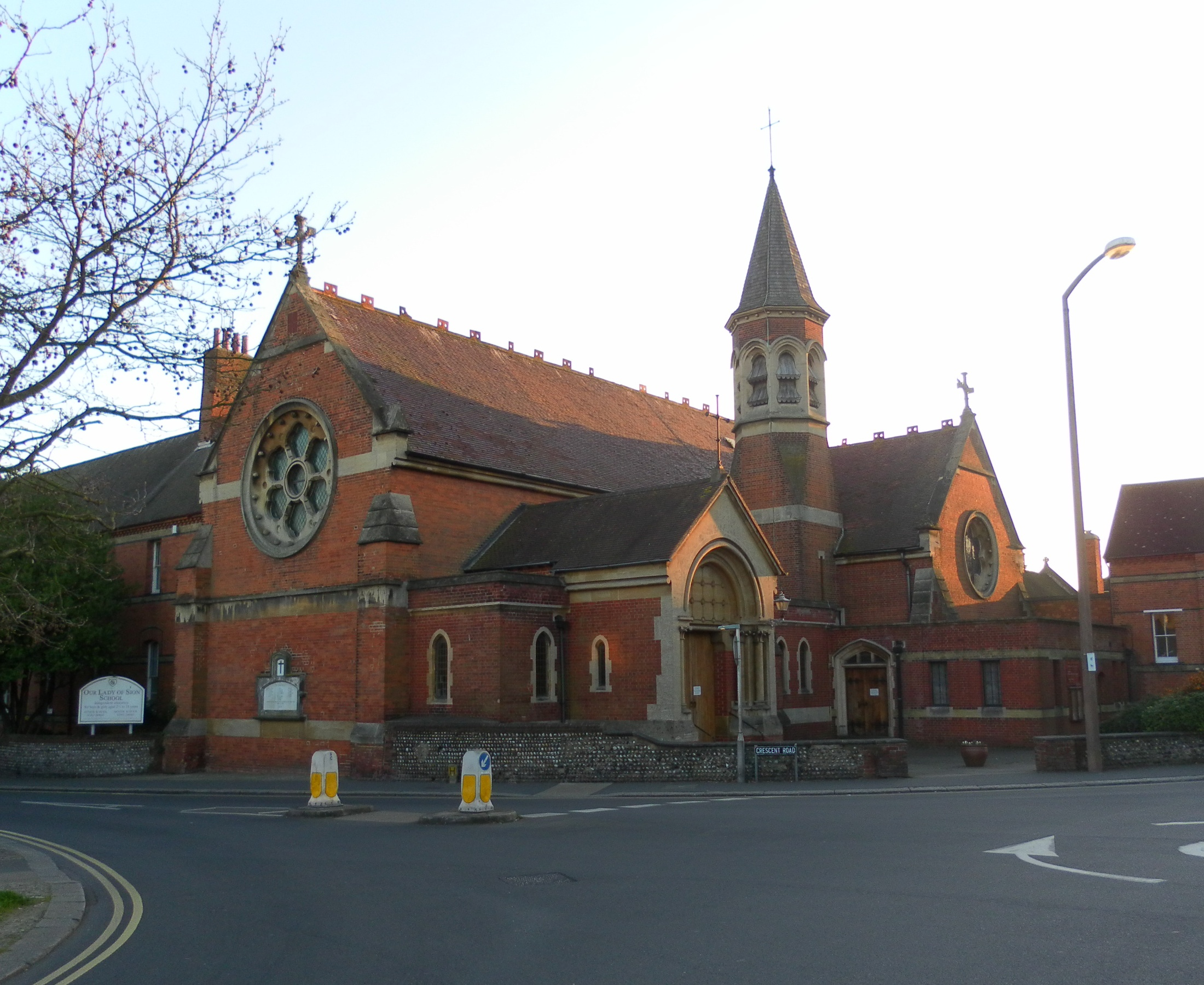 Roman Catholic church of St Mary of the Angels, Richmond Road, Worthing, West Sussex, England, seen from the northeast